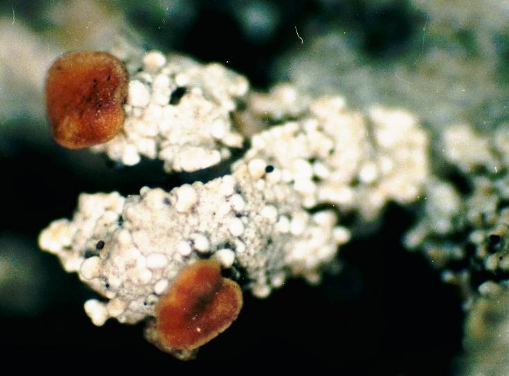 Stereocaulon saxatile H. Magn., 1926 (photograph of a herbarium specimen showing brown apothecia) Growing on exposed acid rock on woodland margin along Lake Superior, S 11.6 miles on Highway 17 from entrance to Pancake Bay Provincial Park, Ontario, Canada; collected and identified by Richard E. Riefner (No. 81-285, 27 Jun 1981); specimen is now in the Lichen Herbarium of the New York Botanical Garden.